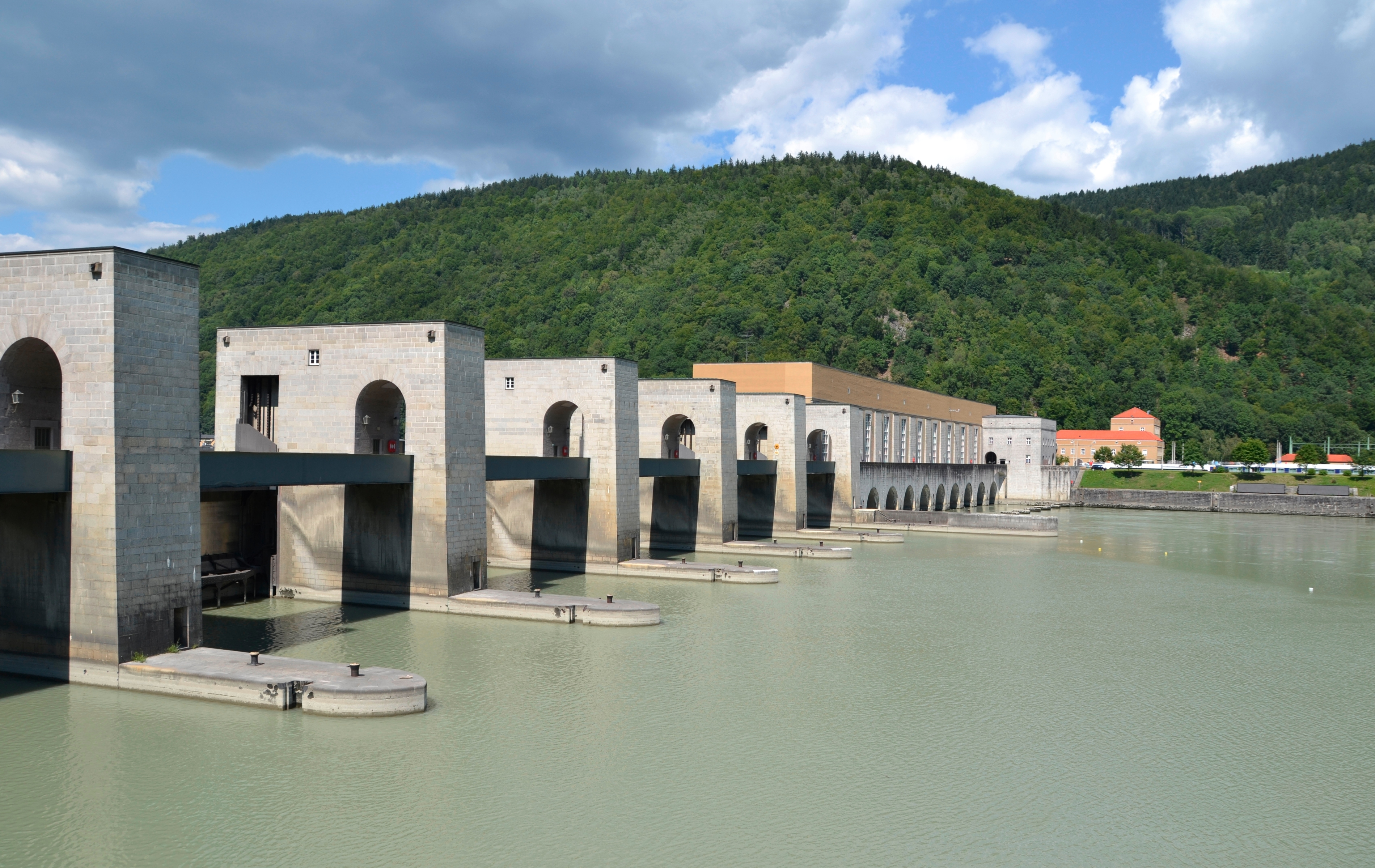 The Jochenstein run-of-the-river hydroelectricity plant.